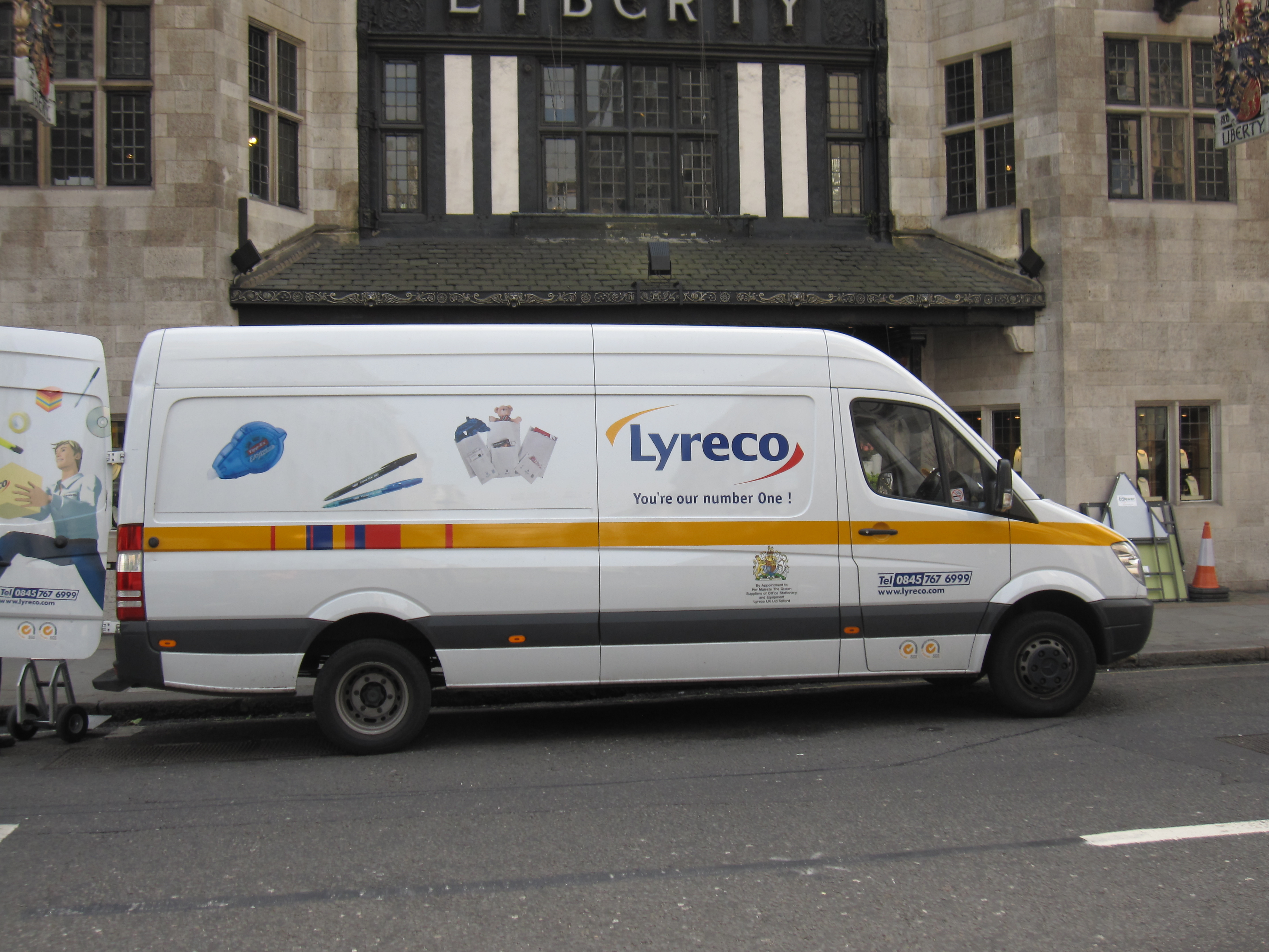 Supplier van by Lyreco, in front of "Liberty" department store in London.